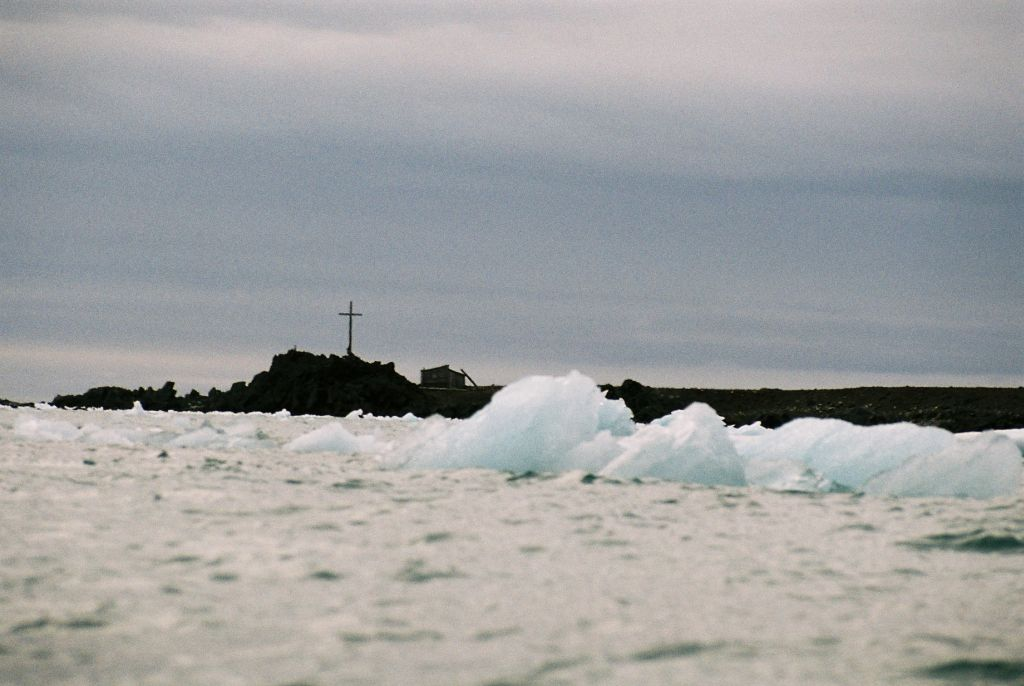 Wilczekodden viewed from Isbjornhamna, Spitsbergen